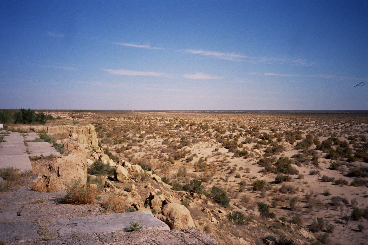 The Aral Sea: The raised land to the left used to be the shore